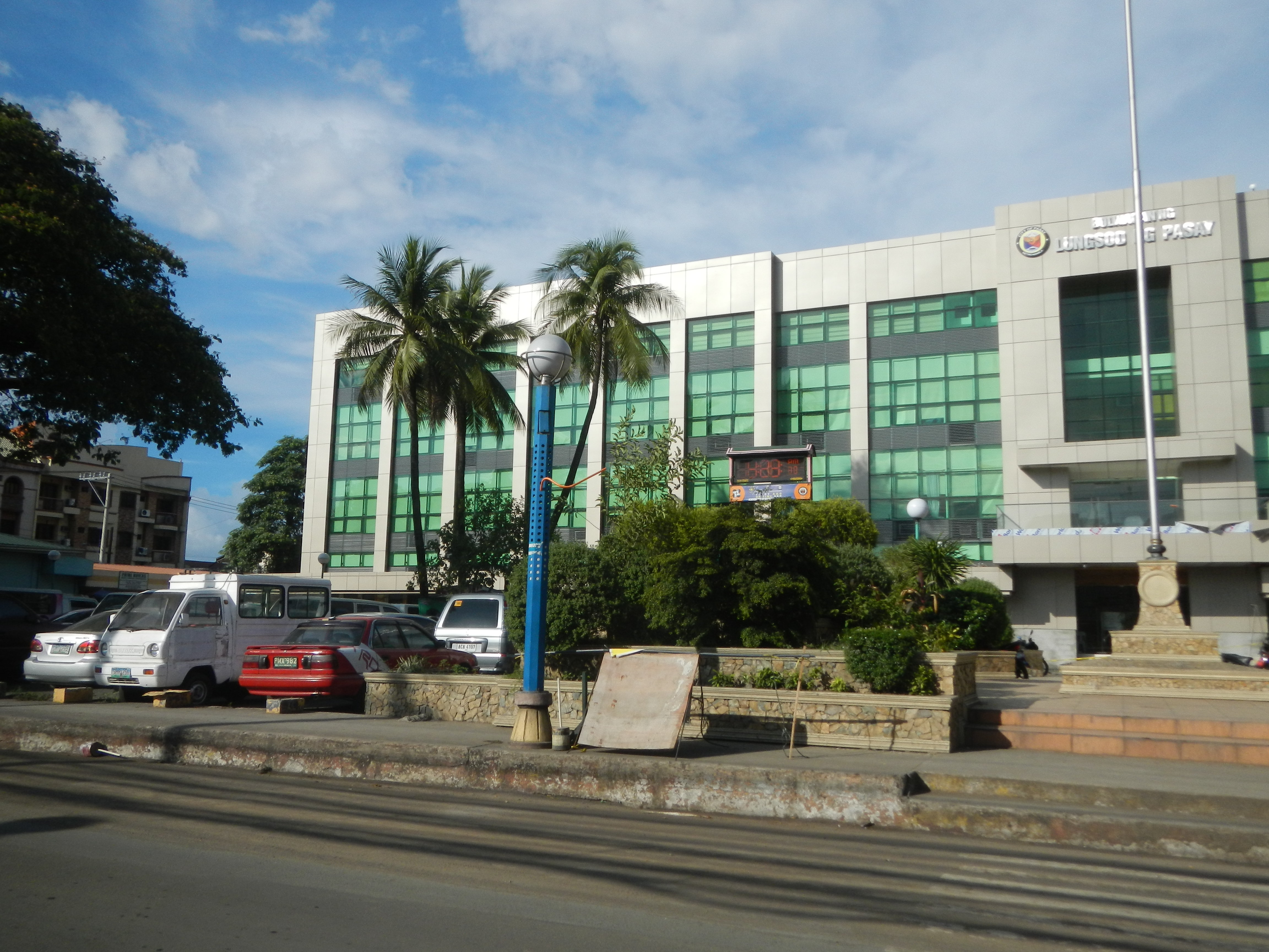 New Pasay City Hall along Harrison Avenue Francis Burton Harrison Avenue, known as F.B. Harrison Avenue , F.B. Harrison Street, Pasay City.